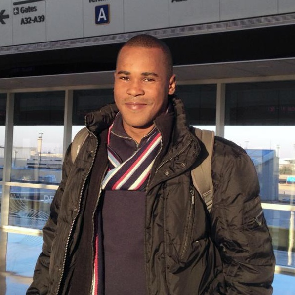 Sampson Nanton at the Hartsfield-Jackson International Airport in Atlanta